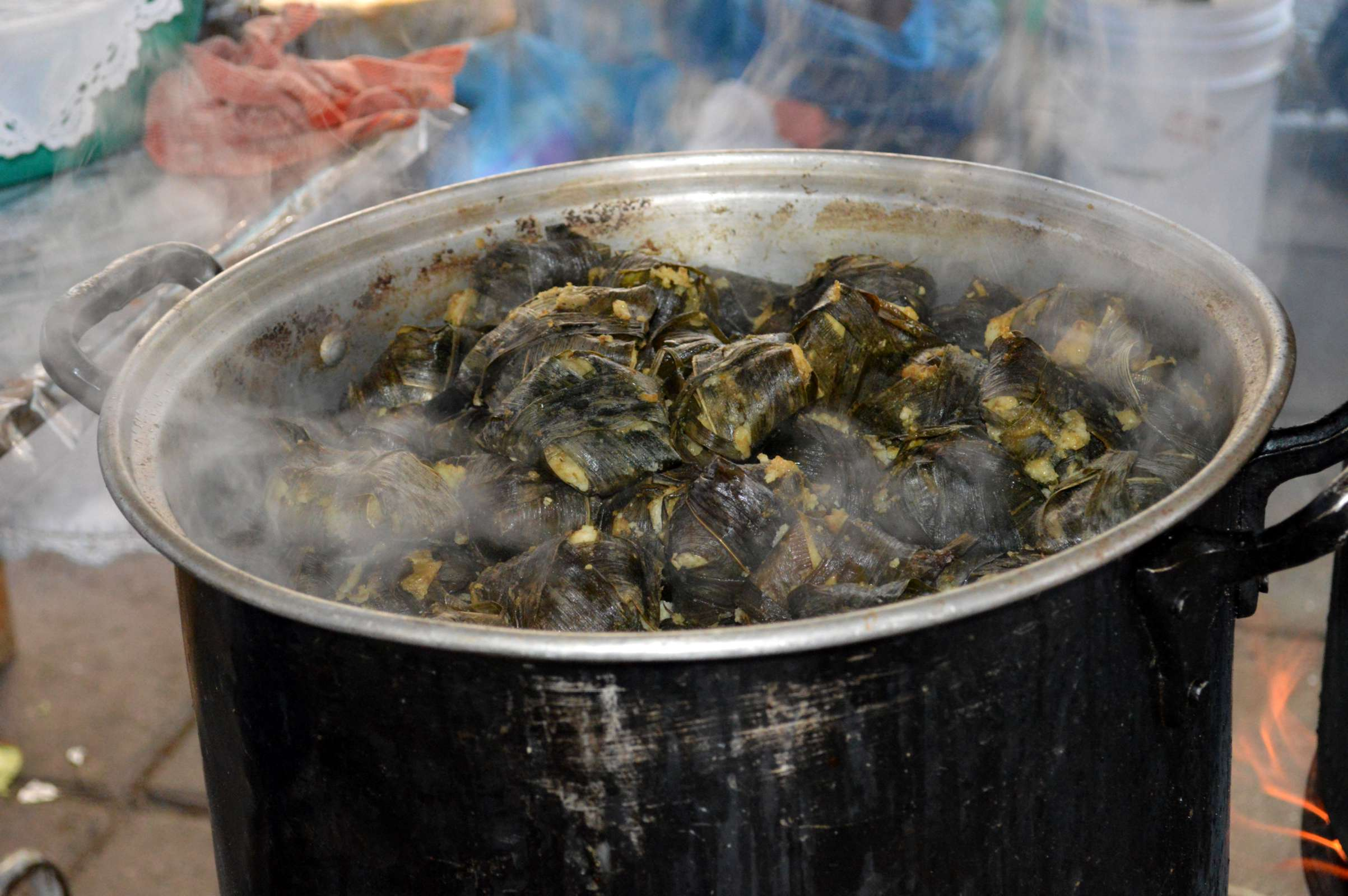 Corundas steaming at the Purhepecha food exhibiton, part of the Tianguis de Domingo de Ramos in Uruapan, Michoacan, Mexico